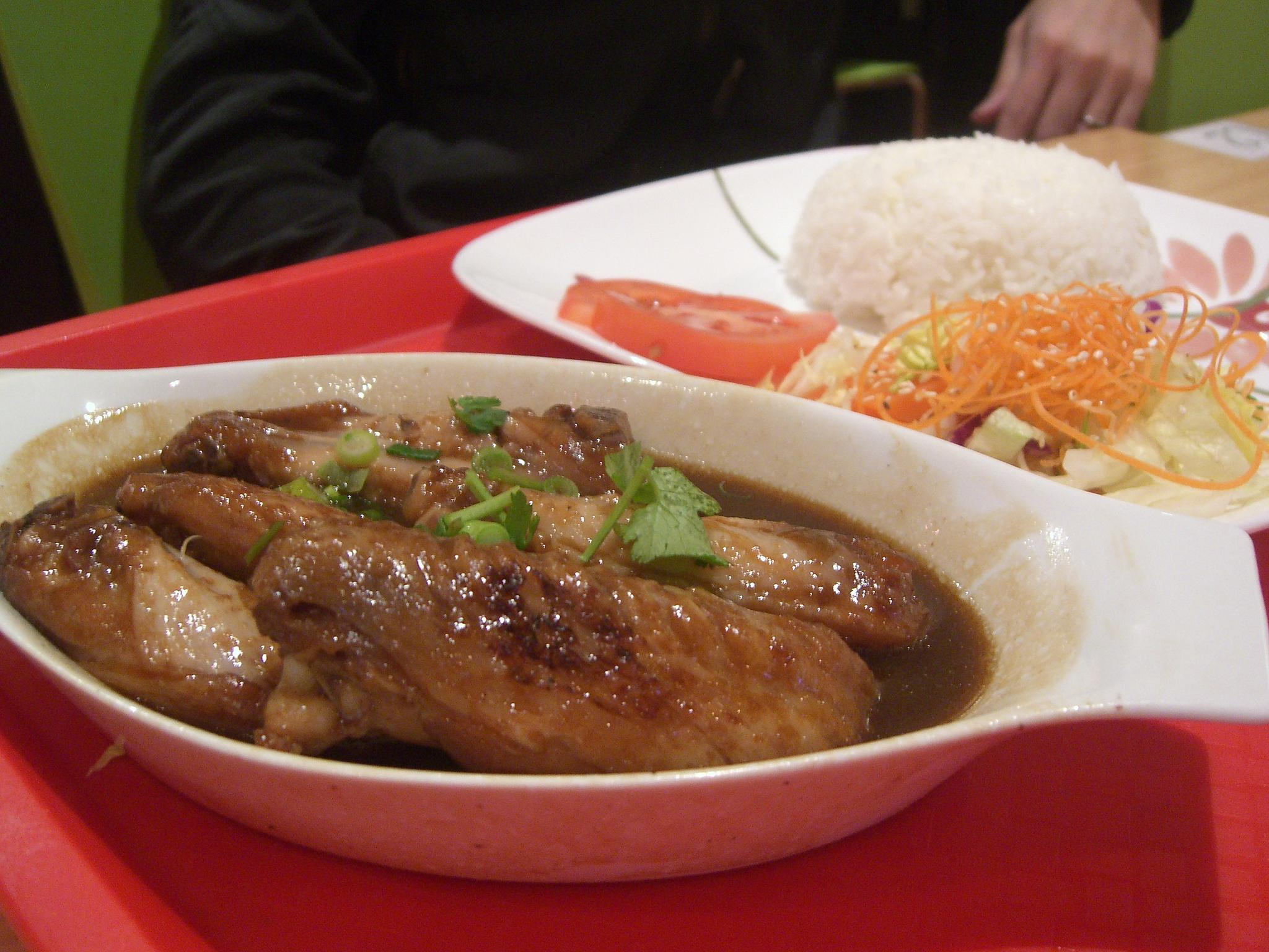 Chicken Wings in Coca Cola Sauce with Rice - King's No. 1 Cafe AUD7.50 --- Jeff and I wanted to have lunch at Dessert House, but the queues put us off, so we decided to give King's No. 1 Cafe another try. Despite they renovation, the were more or less doing overflow business from Dessert House and Gold Star Cafe in the Chinatown Cinema Arcade. Perhaps the name "no one cafe" is a bad omen! Feeling adventurous, Jeff ordered the Chicken Wings in Coca Cola Sauce and I got the Lemongrass Pork Chop with Orange Sauce. Both were too sweet and lacking in the advertised cola and orange. Mine had the disadvantage of beeing goopier! At least we know what not to order the next time! I also noticed that they serve breakfast items like steamed buns for AUD1.50, 2 dumplings for AUD2.50, bowls of noodles for AUD3.50 and congee for AUD3, and they do breakfast sets for AUD4.50 to AUD6. Breakfast is between 9:30am to 11:30am. Worth a try! King's No. 1 Cafe Shop 3 / 200 Bourke St Melbourne VIC 3000 (03) 9663 5472